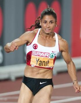 This is the cut of a portion of the file.